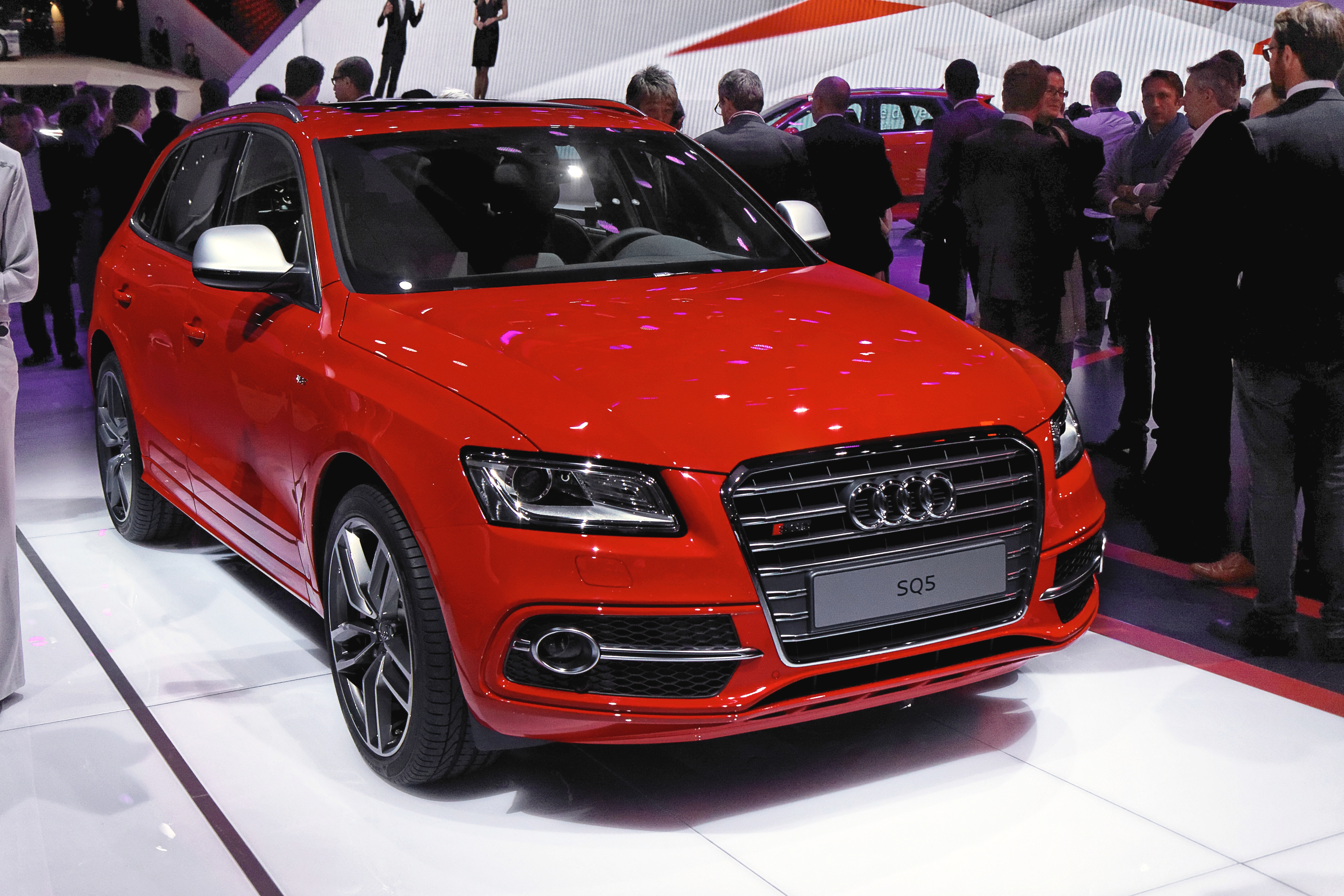 An Audi SQ5 presented on the Paris Motor Show 2012.